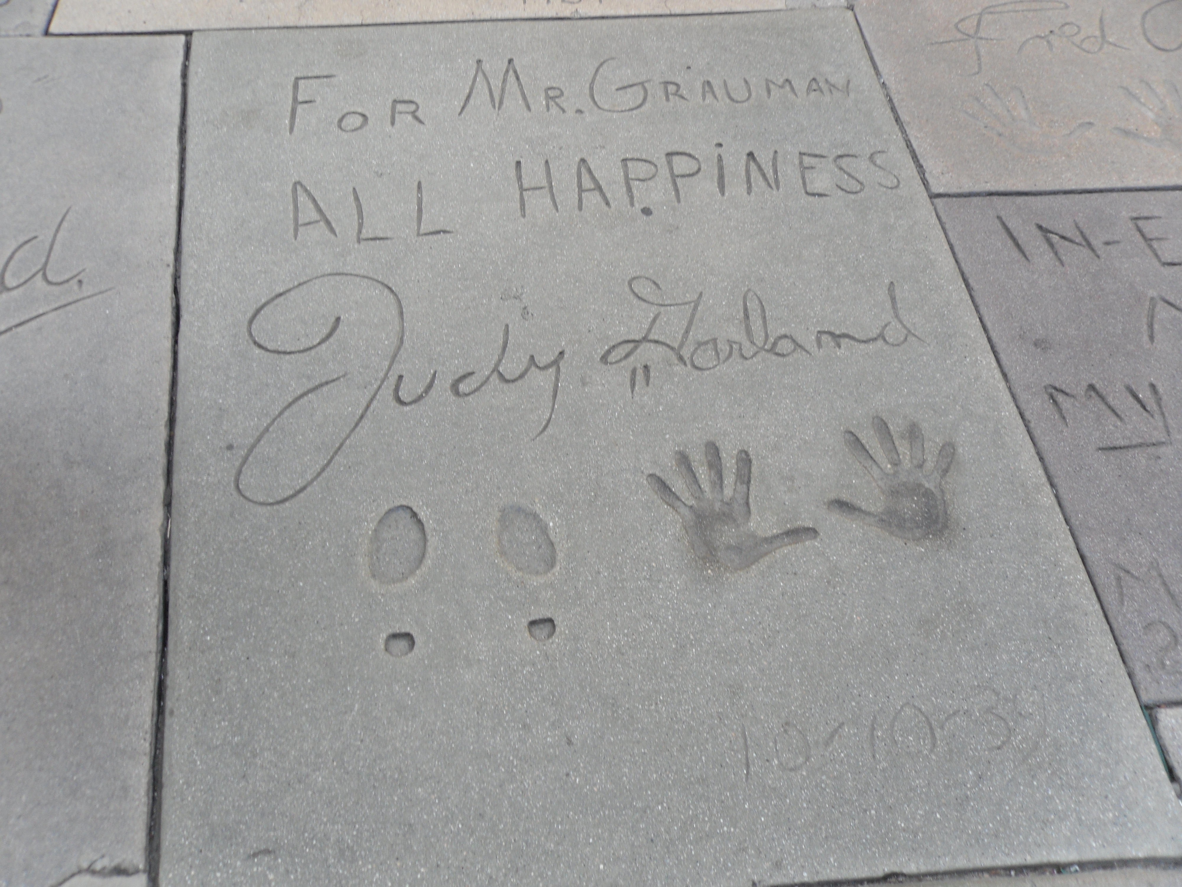 Judy Garland's signature at Grauman's Chinese Theatre